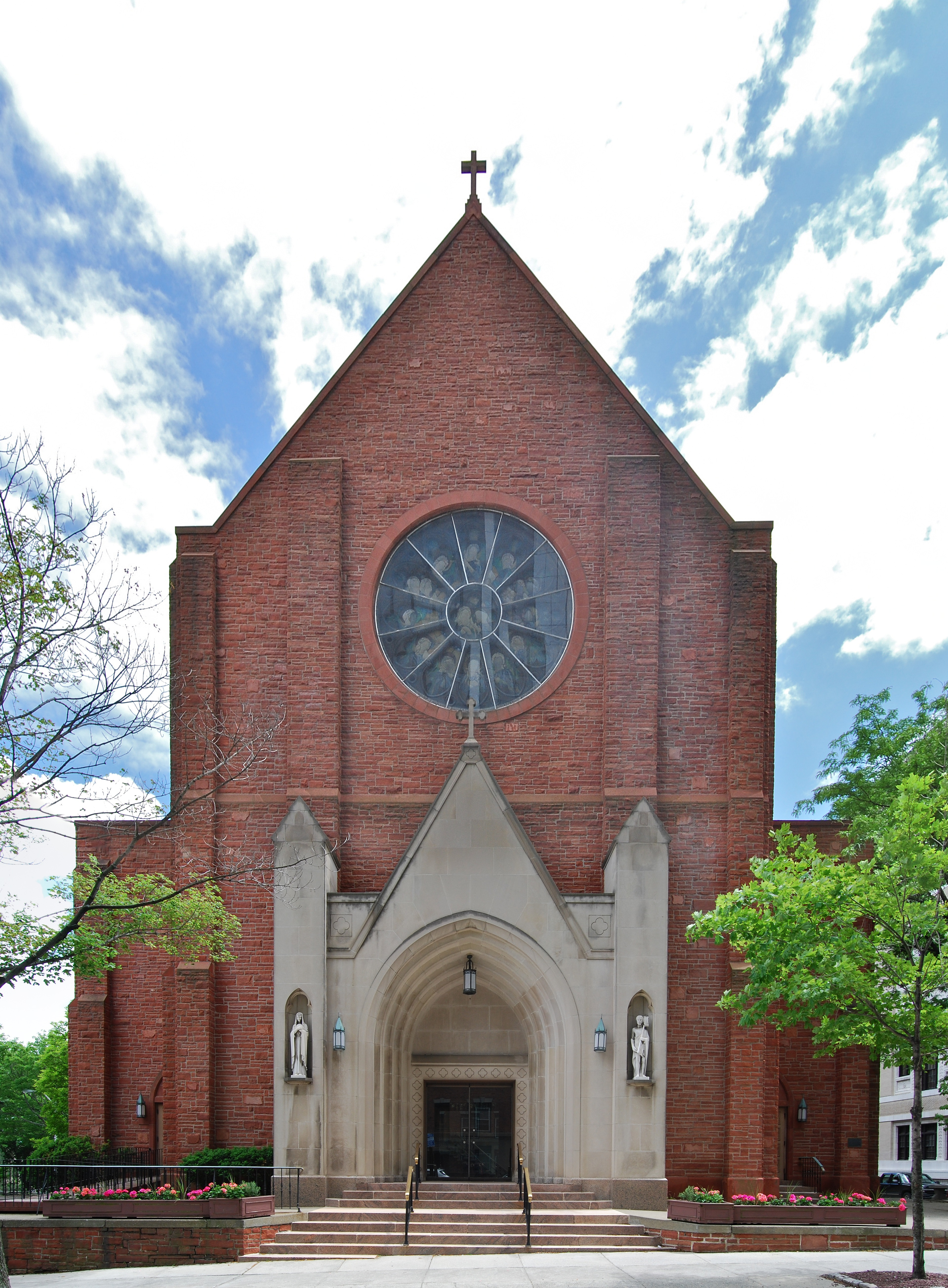 Cathedral of All Saints, cathedral and Episcopal See of the Episcopal Diocese of Albany in Albany, New York, United States